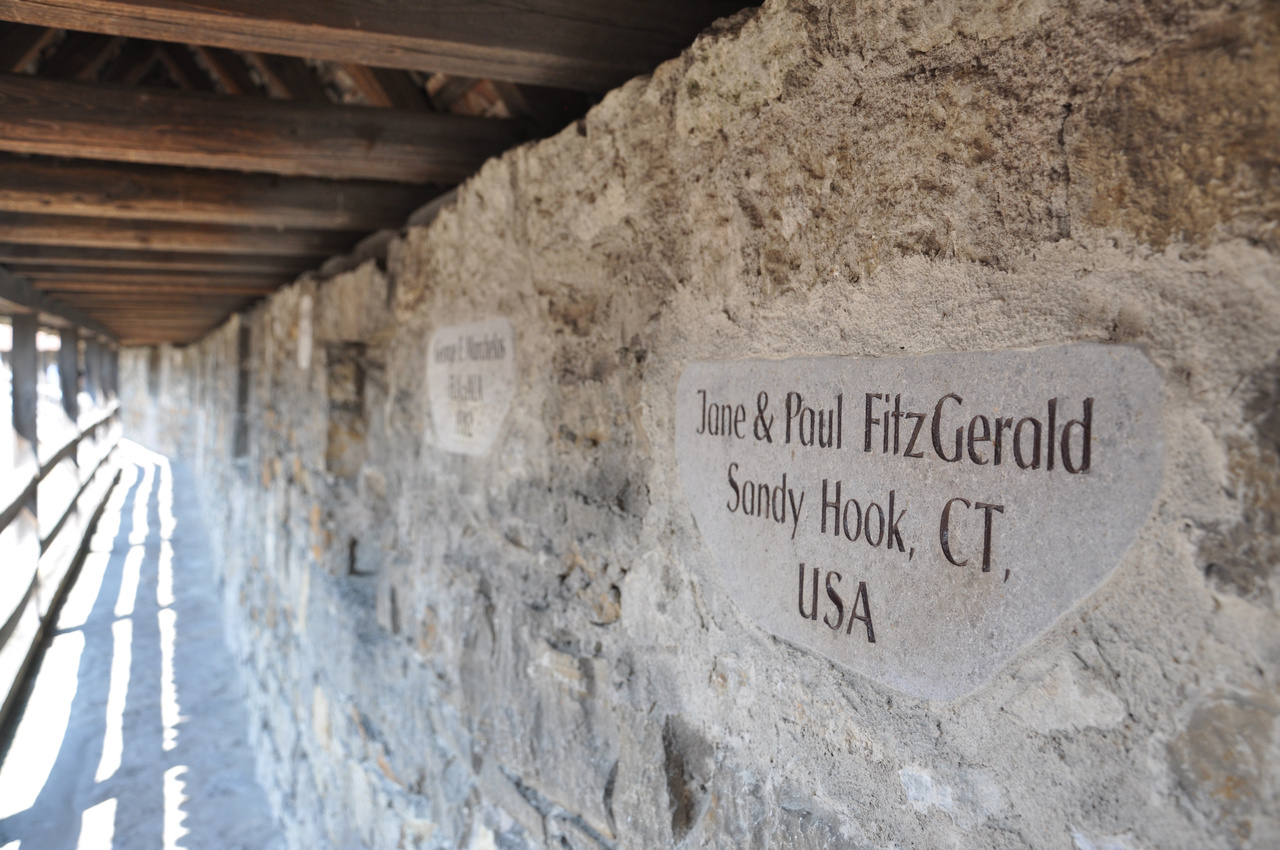 Memorial plaque at Rothenburg's city wall